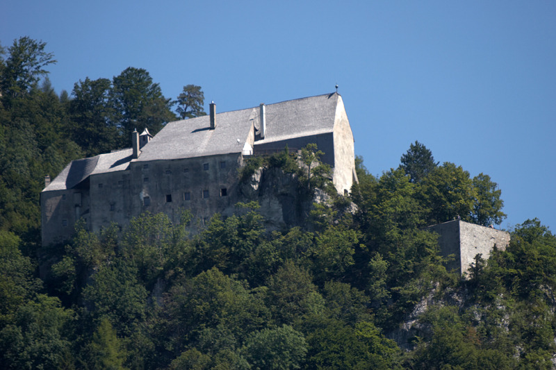 Castle Altpernstein